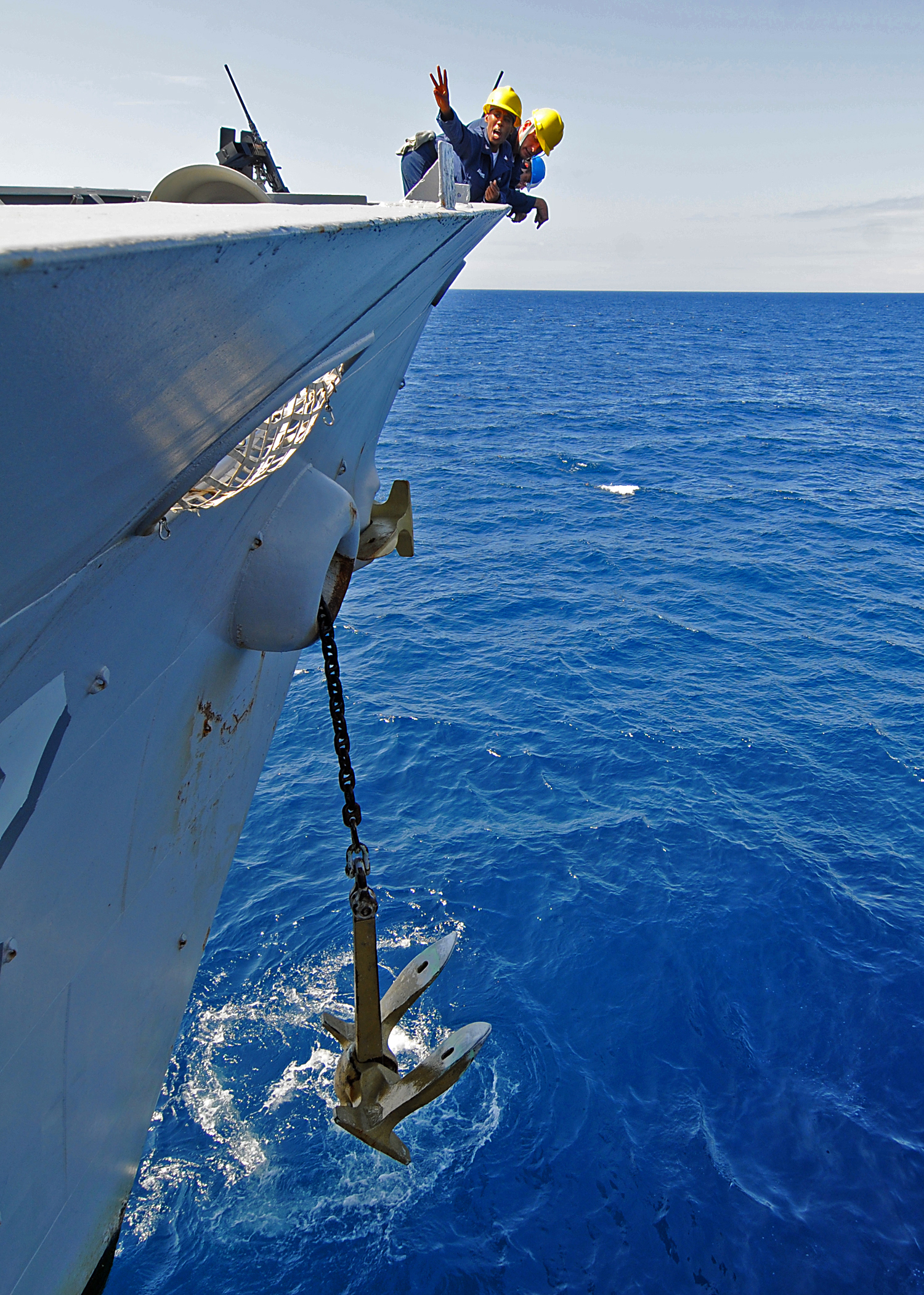 Boatswain's Mate 3rd Class Michelle Adams and Boatswain's Mate 2nd Class Conrad Hunt signal to raise the anchor chain during an anchoring evolution aboard the guided-missile cruiser USS Vella Gulf (CG 72). 081027-N-1082Z-045 INDIAN OCEAN (Oct. 27, 2008) Boatswain's Mate 3rd Class Michelle Adams and Boatswain's Mate 2nd Class Conrad Hunt signal to raise the anchor chain during an anchoring evolution aboard the guided-missile cruiser USS Vella Gulf (CG 72). Vella Gulf is deployed as part of the Iwo Jima Expeditionary Strike Group supporting maritime security operations in the U.S. 5th Fleet area of responsibility. — Released (Text by U.S. Navy)